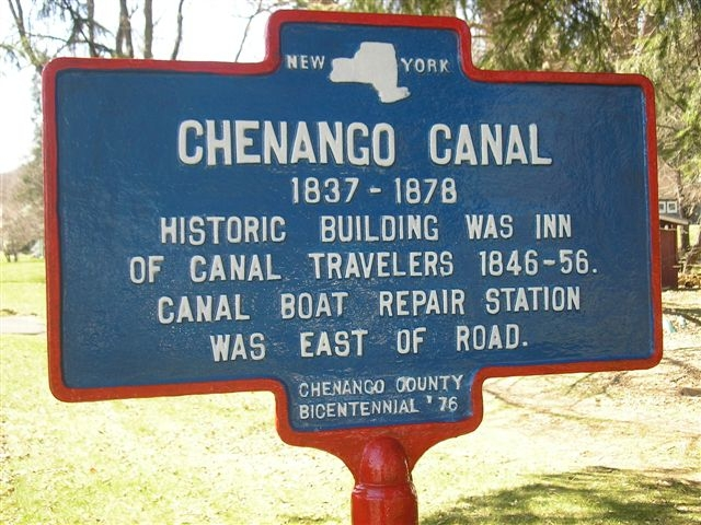 Historic marker of Chenango Canal historic inn and canal boat repair station